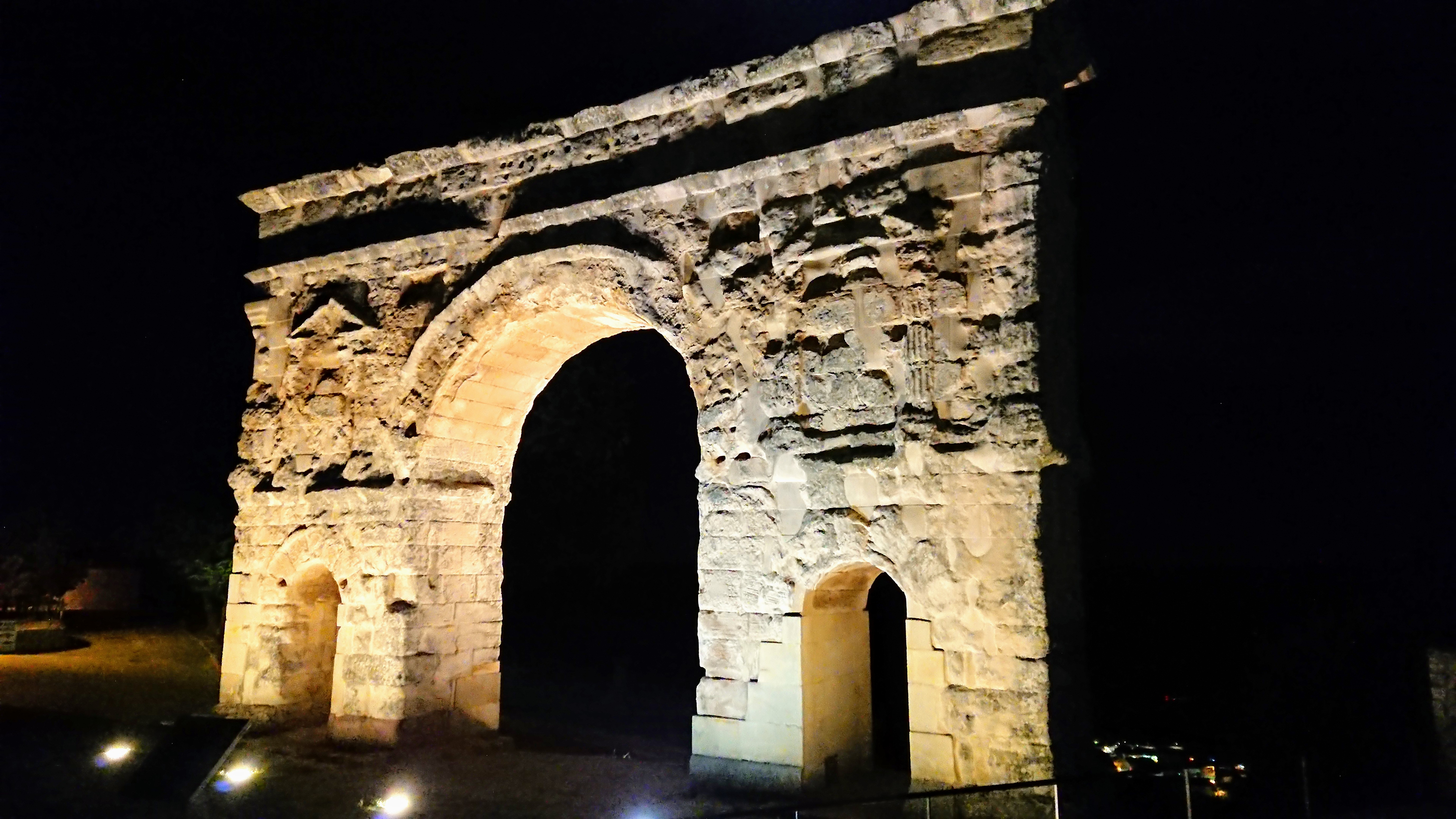 Medinaceli Roman Arch, Spain